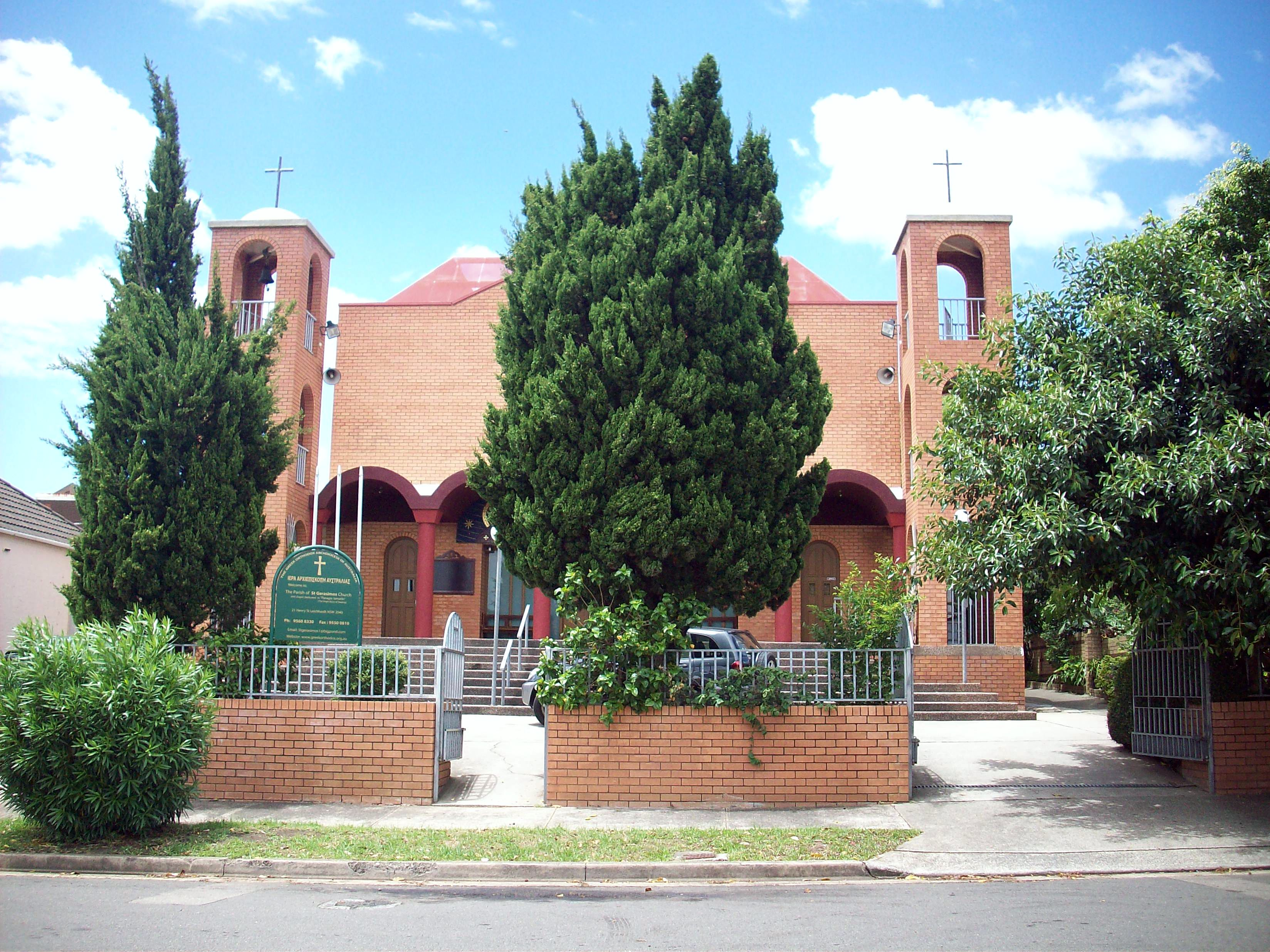 St Gerasimos Greek Orthodox Church in Leichhardt, New South Wales.